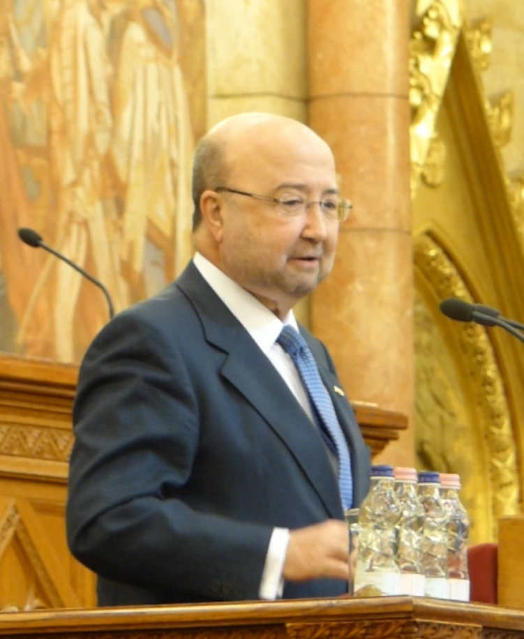 José Ángel López Jorrin. Taken on the 28th of november, 2016. Hungarian Parliament (Felsőház). Conference of Veritas Történetkutató Intézet.